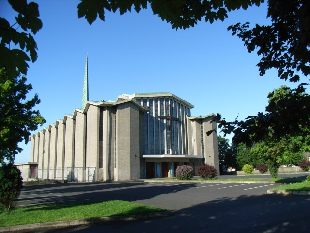 Church of the Annunciation. In the townland of Finglas West, in the civil parish of Finglas, in the barony of Castleknock.